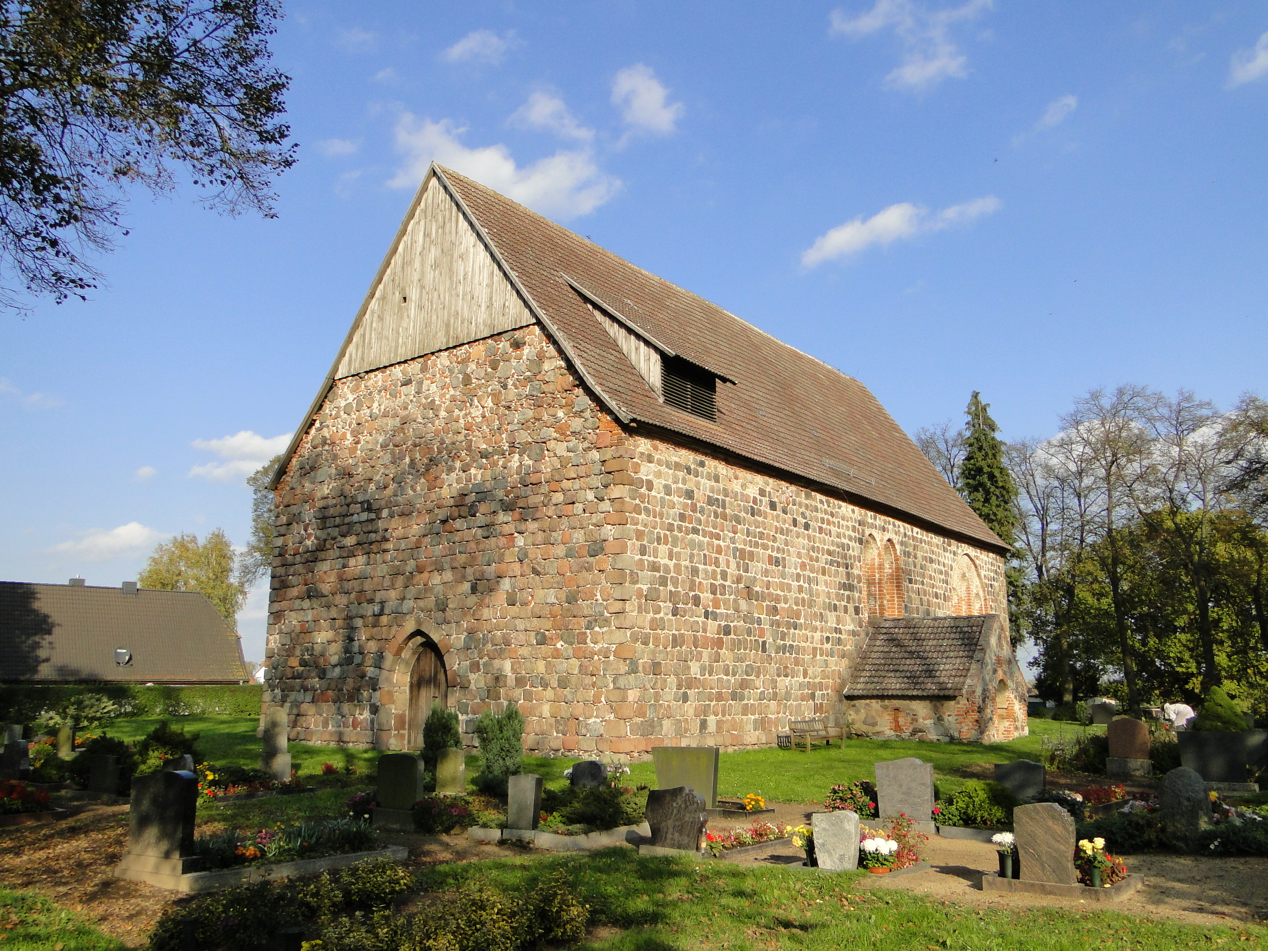 Church in Neuenkirchen, district Mecklenburg-Strelitz, Mecklenburg-Vorpommern, Germany